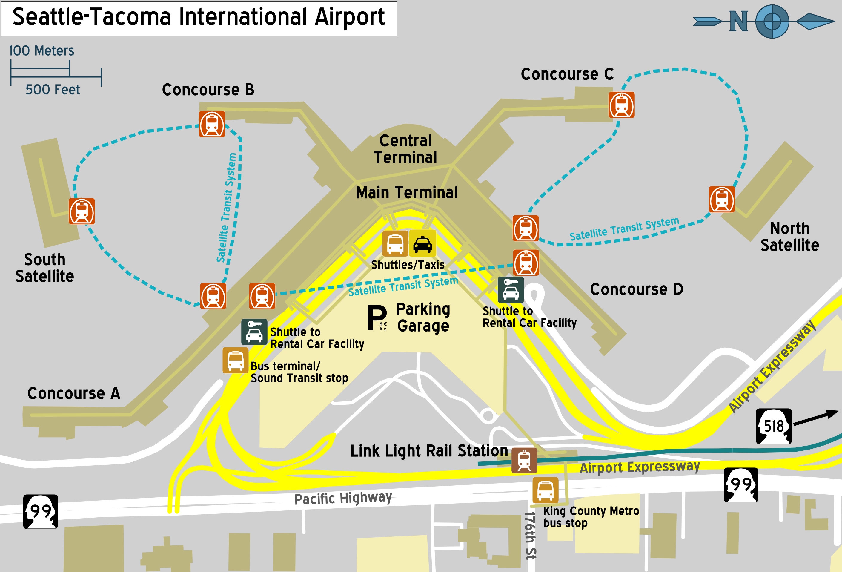 Map of the Seattle-Tacoma International Airport, created using OpenStreetMap data and the Wikivoyage Public Domain Map Template.